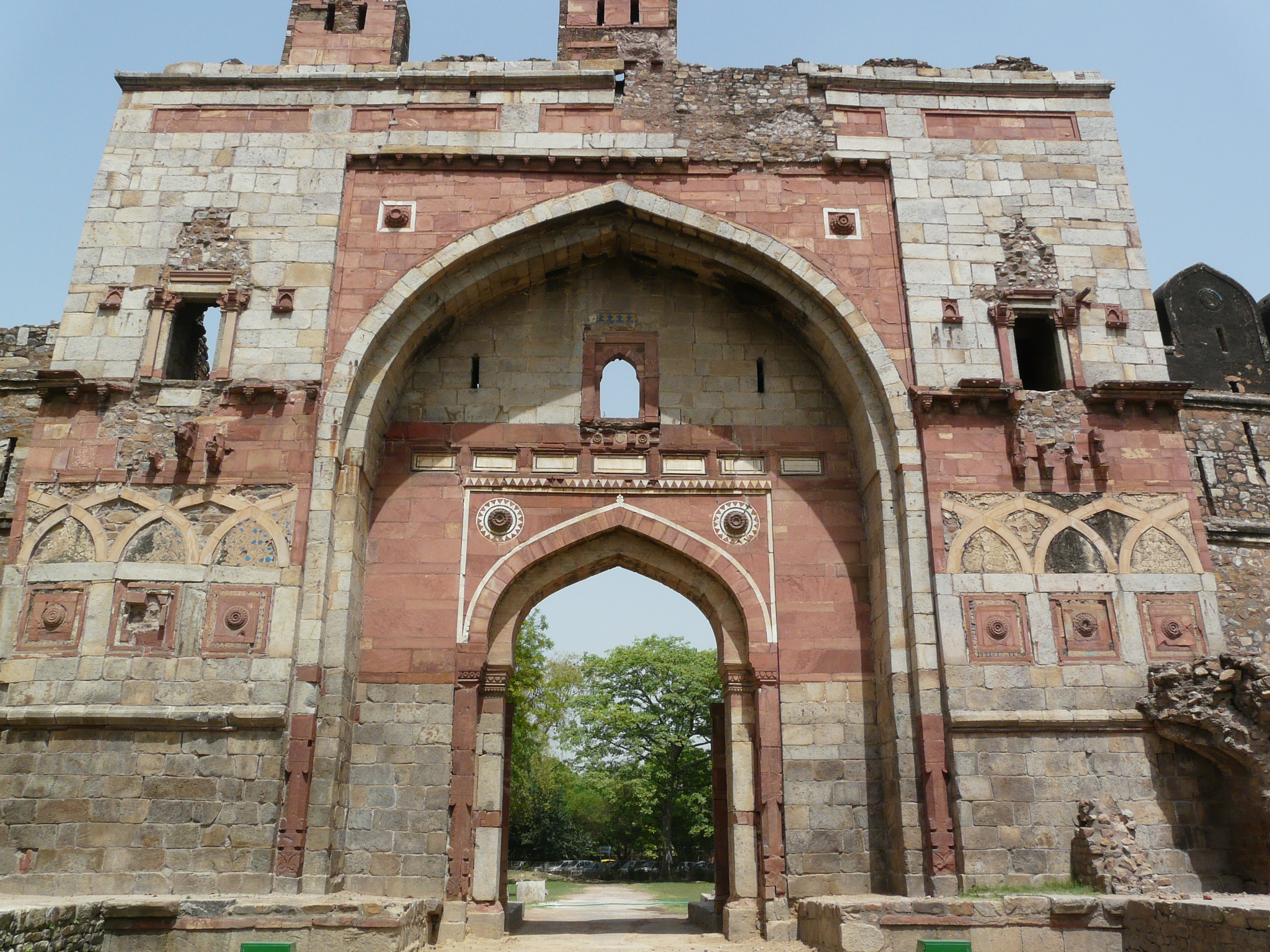 Sher Shah Suri gate oppsoite Purana Qila Delhi on Mathura Road, also referred as Lal Darwaza, Red Gateway